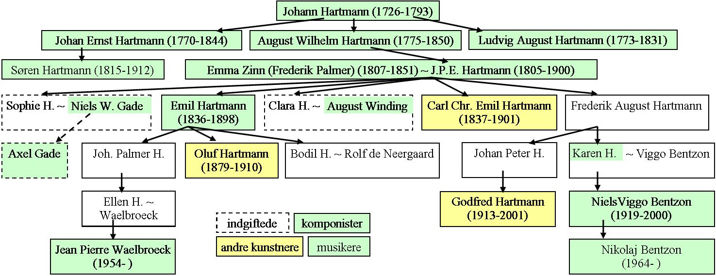 Family tree of J.P.E. Hartmann's family